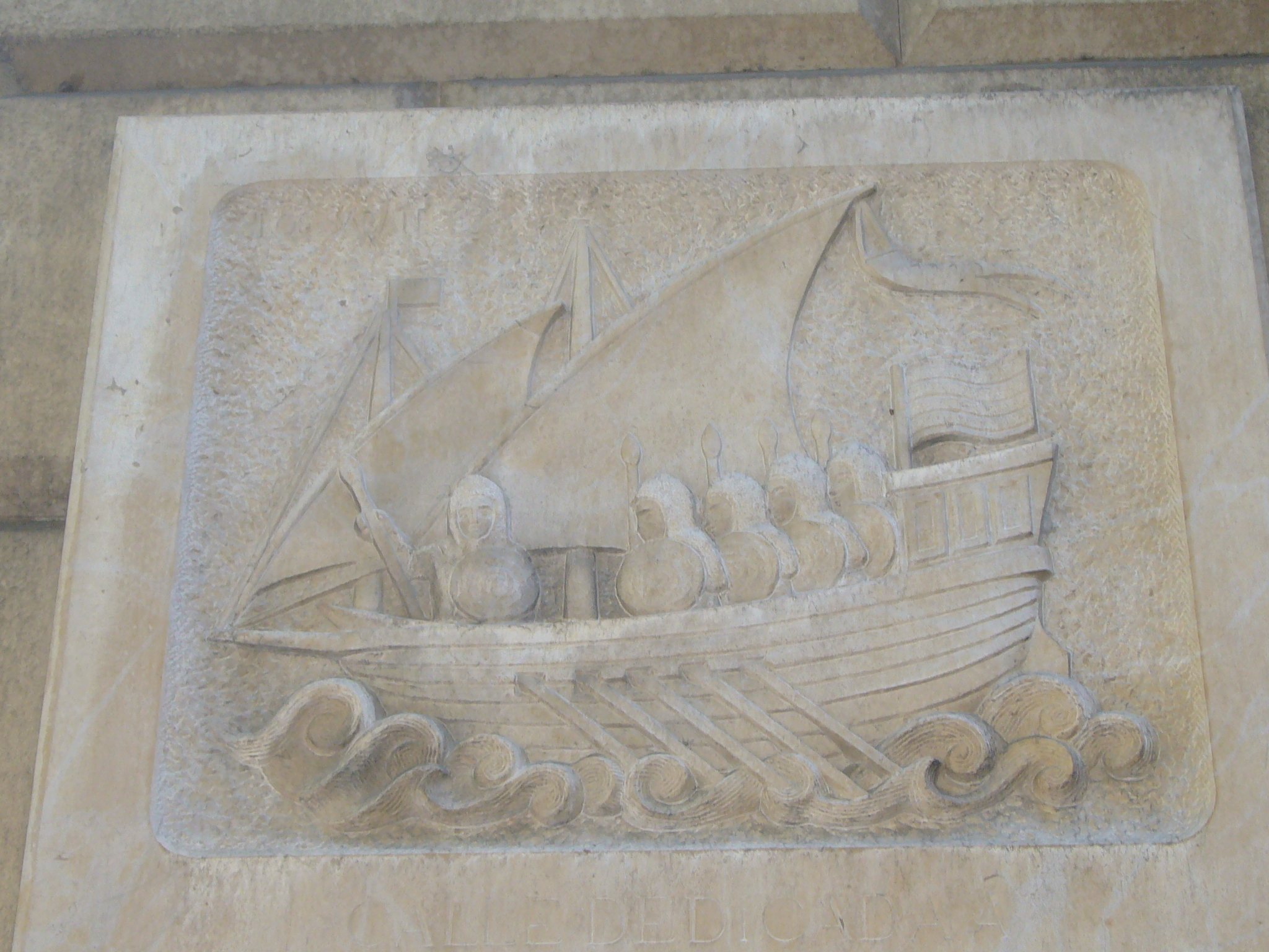 Relief of ship and sailors, in honour of Roger de Lluria, at the facade of Palau Casades